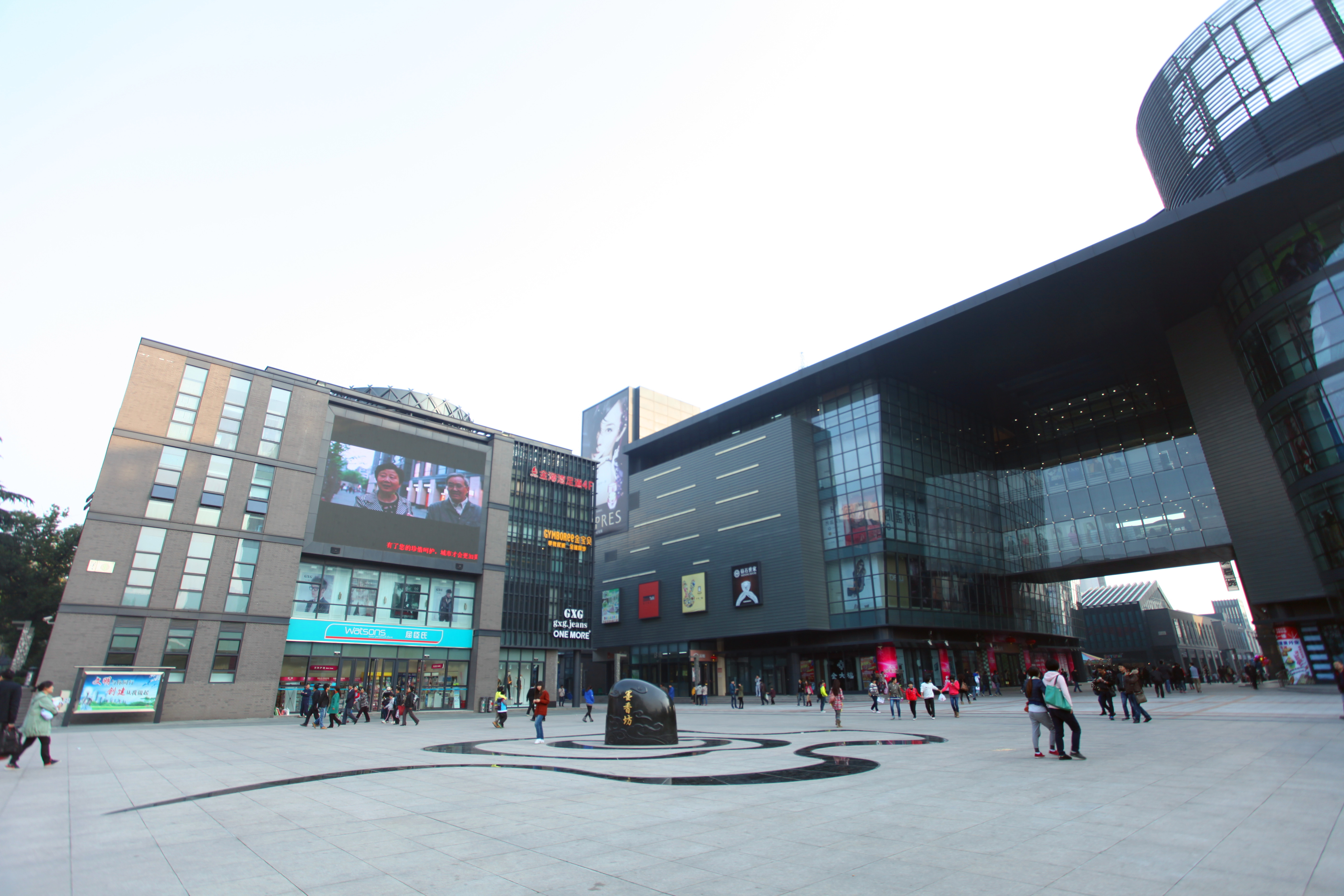 Ishine Square in Huzhou